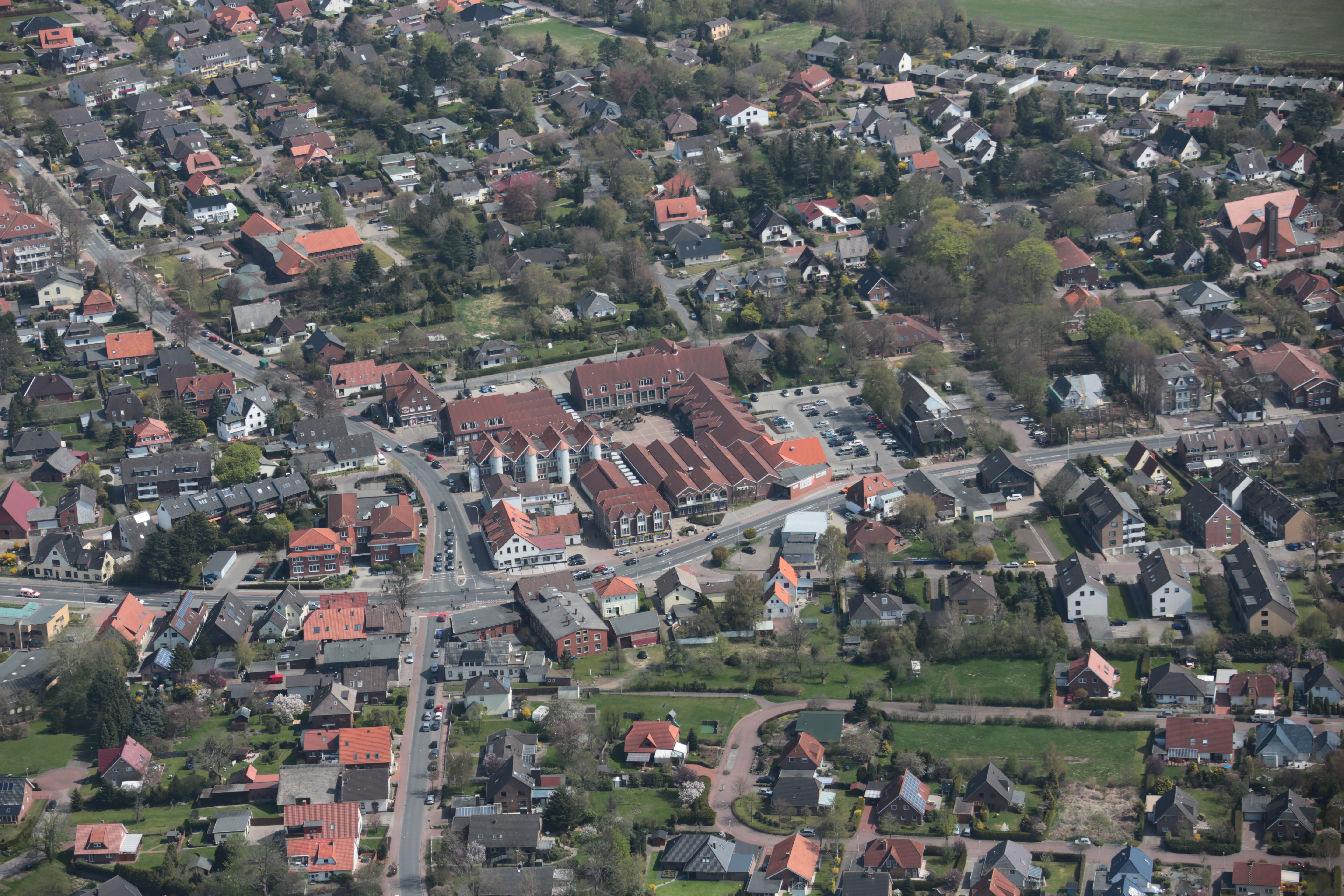 Fotoflug von Nordholz-Spieka nach Oldenburg und Papenburg This photo was taken by Alchemist-hp. If you use one of my photos, an email (account needed) or a message or direct to: my email account would be greatly appreciated. Please note the license terms. Other licensing terms can get discussed, too. This file is copyrighted and has been released under a license which is incompatible with Facebook's licensing terms. It is not permitted to upload this file to Facebook.